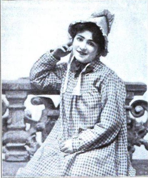 Photo of actress Anna Buckley, in the role of Chick Eizey in "The County Chairman", a play be George Ade, circa 1903-4. Appeared in November 1904 issue of Pearson's Magazine, at p. 470